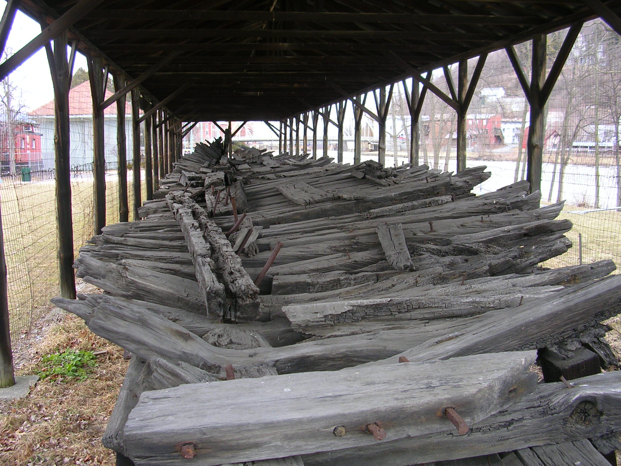 FirstTiconderoga